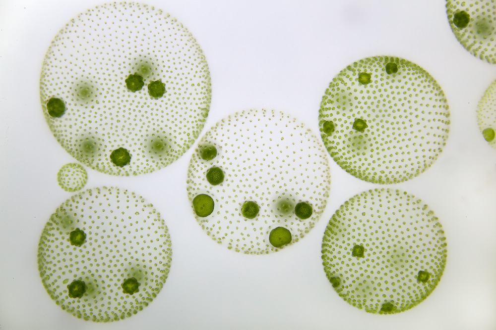 Volvox is a genus of multicellular green algae.